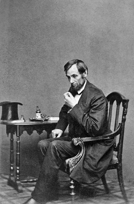 Photograph of Abraham Lincoln. Ostendorf# O-60; Meserve# M-64.